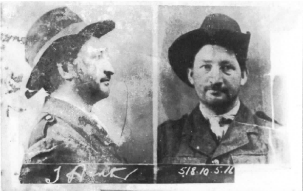 Mug-shot of Thomas C. Hunter taken after seven days of armed rebellion in Dublin, Ireland. 1916.